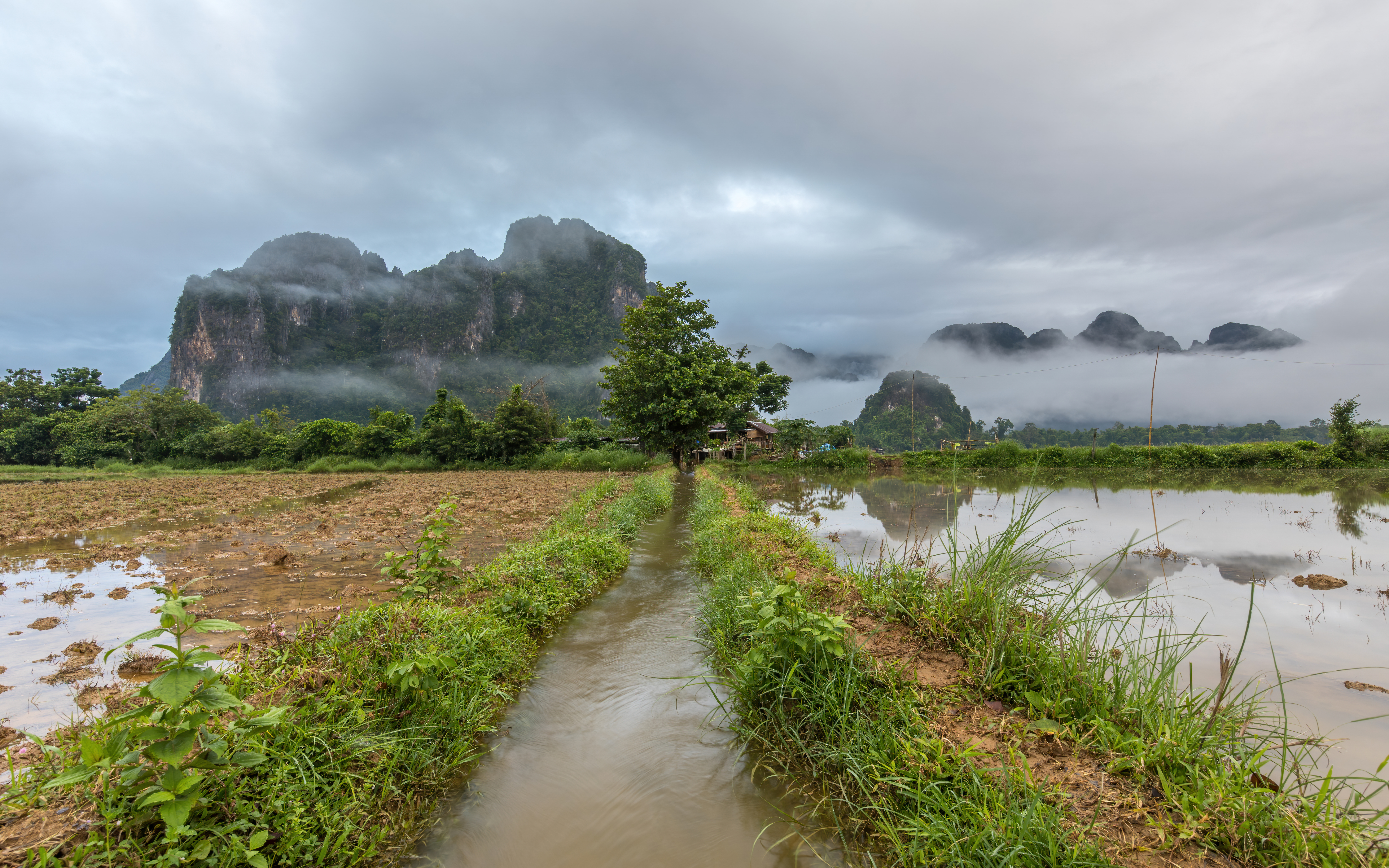 Front view of a stream with a tree as vanishing point, mountains, and mist, early morning, during the monsoon, in the countryside of Vang Vieng, Laos.